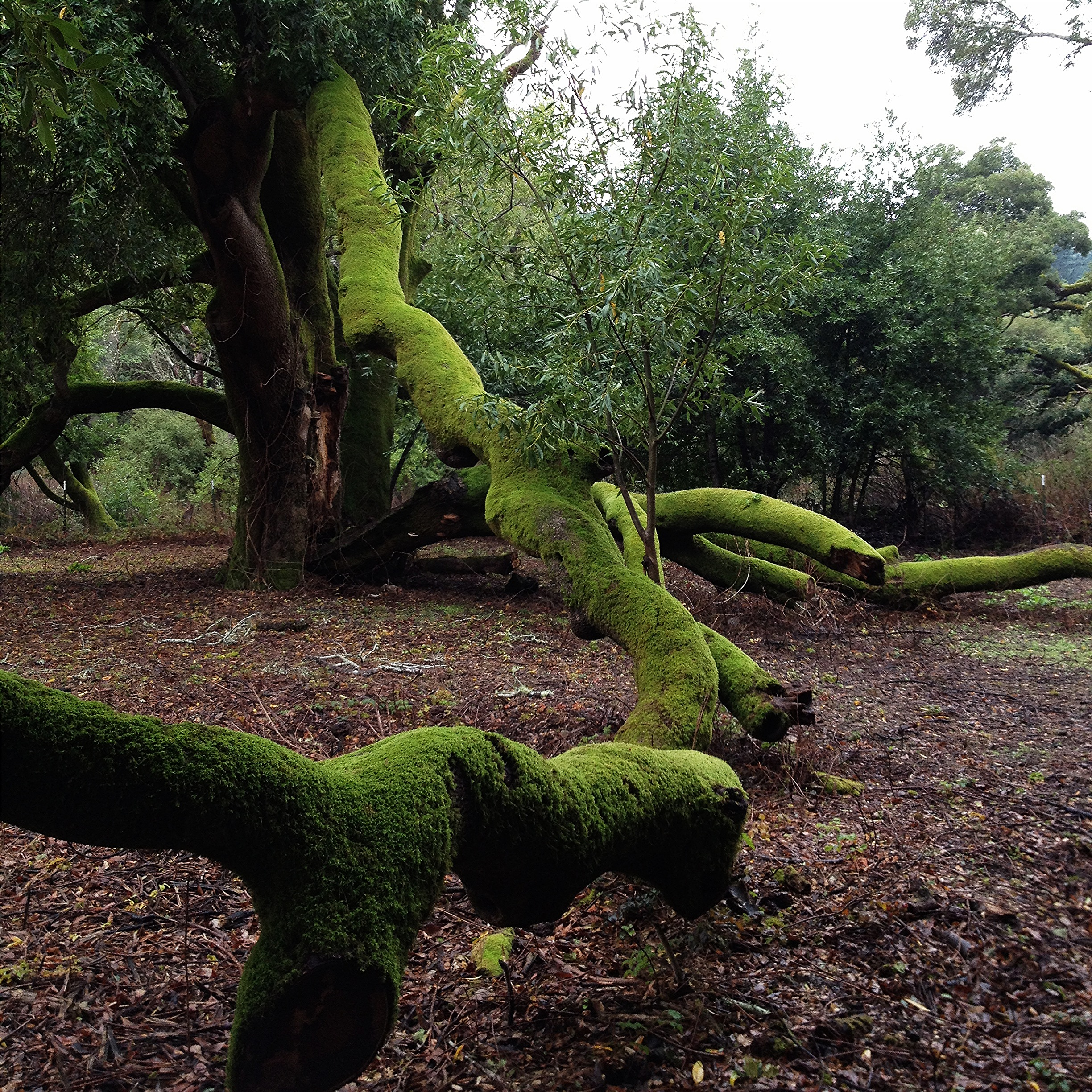 Jepson laurel tree at San Andreas fault